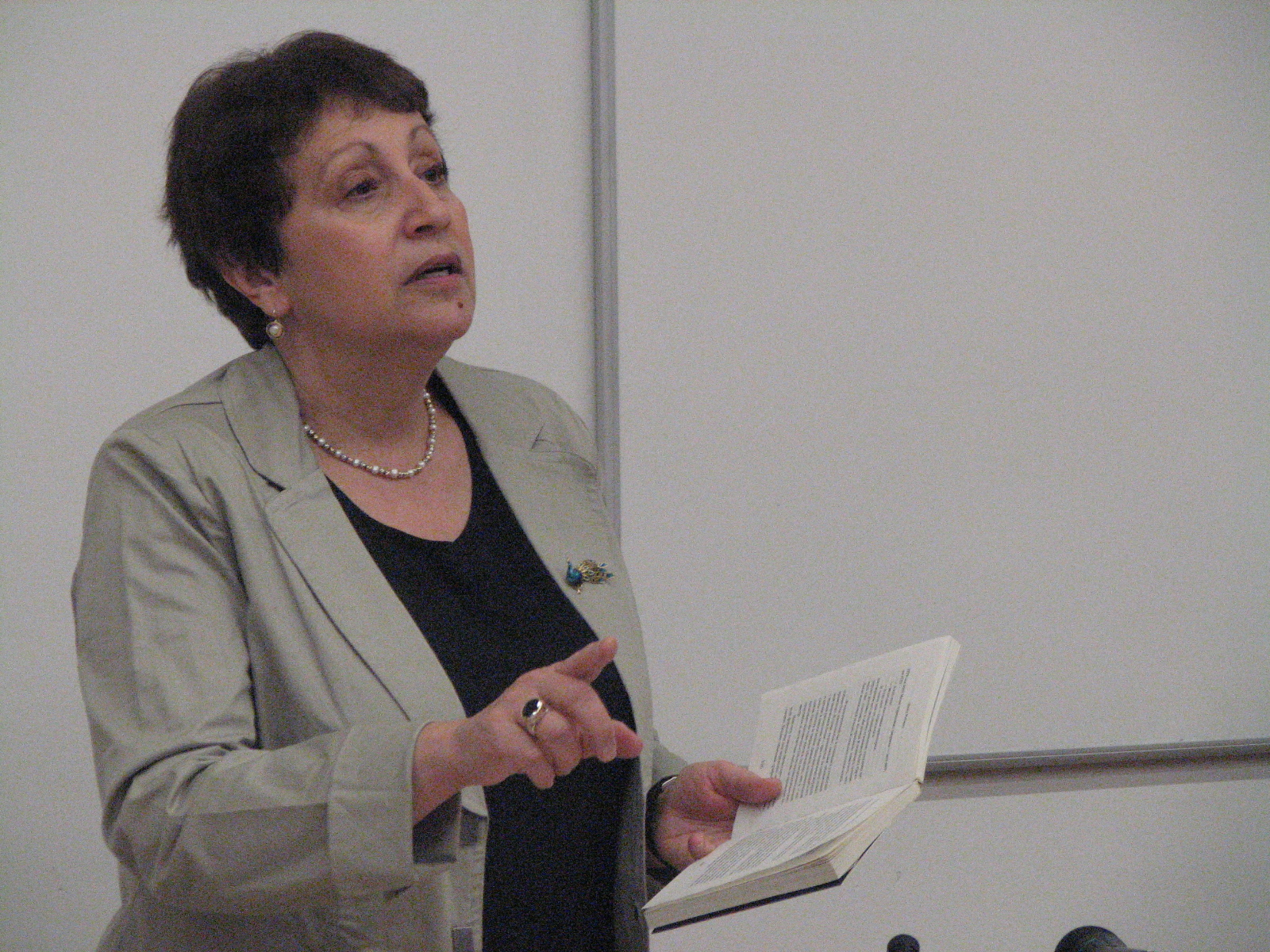 Dina Rubina performing in Tallinn University during Prima Vista literary festival